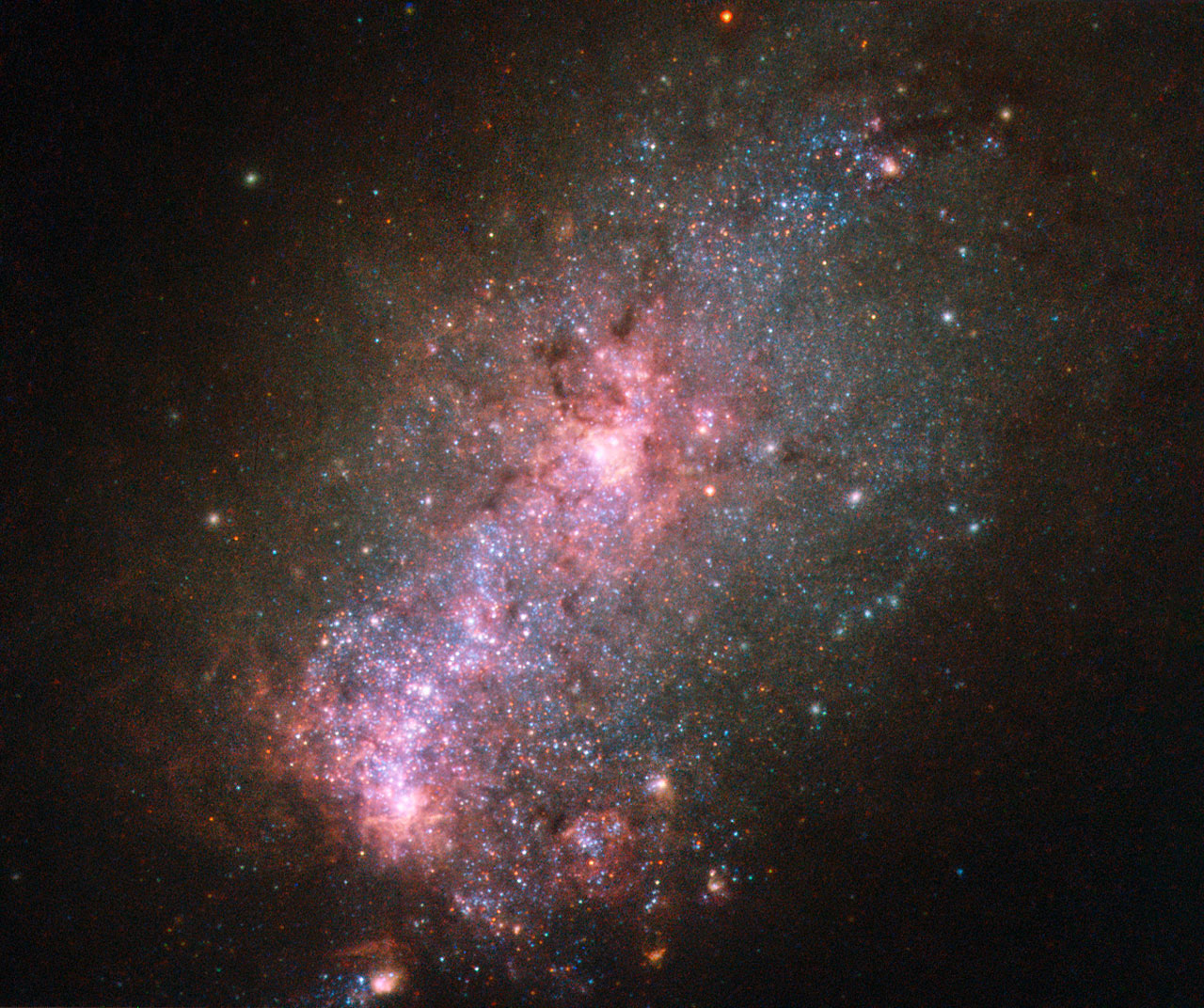 This NASA/ESA Hubble Space Telescope image reveals the vibrant core of the galaxy NGC 3125. Discovered by John Herschel in 1835, NGC 3125 is a great example of a starburst galaxy — a galaxy in which unusually high numbers of new stars are forming, springing to life within intensely hot clouds of gas. Located approximately 50 million light-years away in the constellation of Antlia (The Air Pump), NGC 3125 is similar to, but unfathomably brighter and more energetic than, one of the Magellanic Clouds. Spanning 15,000 light-years, the galaxy displays massive and violent bursts of star formation, as shown by the hot, young, and blue stars scattered throughout the galaxy’s rose-tinted core. Some of these clumps of stars are notable — one of the most extreme Wolf–Rayet star clusters in the local Universe, NGC 3125-A1, resides within NGC 3125. Despite their appearance, the fuzzy white blobs dotted around the edge of this galaxy are not stars, but globular clusters. Found within a galaxy’s halo, globular clusters are ancient collections of hundreds of thousands of stars. They orbit around galactic centers like satellites — the Milky Way, for example, hosts over 150 of them. Image credit: ESA/Hubble & NASA, Acknowledgement: Judy Schmidt NASA image use policy. NASA Goddard Space Flight Center enables NASA’s mission through four scientific endeavors: Earth Science, Heliophysics, Solar System Exploration, and Astrophysics. Goddard plays a leading role in NASA’s accomplishments by contributing compelling scientific knowledge to advance the Agency’s mission. Follow us on Twitter Like us on Facebook Find us on Instagram